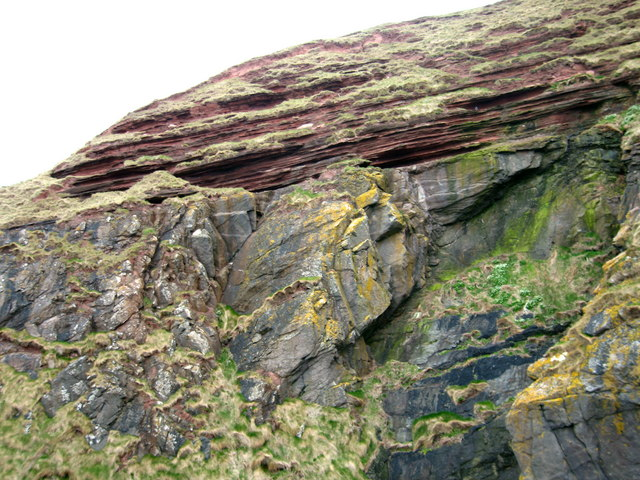 Hutton's Unconformity, Siccar Point Famous for Hutton's observations that provided evidence for geological evolution. Here, Silurian greywackes, laid down approximately 425 million years ago are underneath Devonian sandstone deposited approximately 345 million years ago. More information here